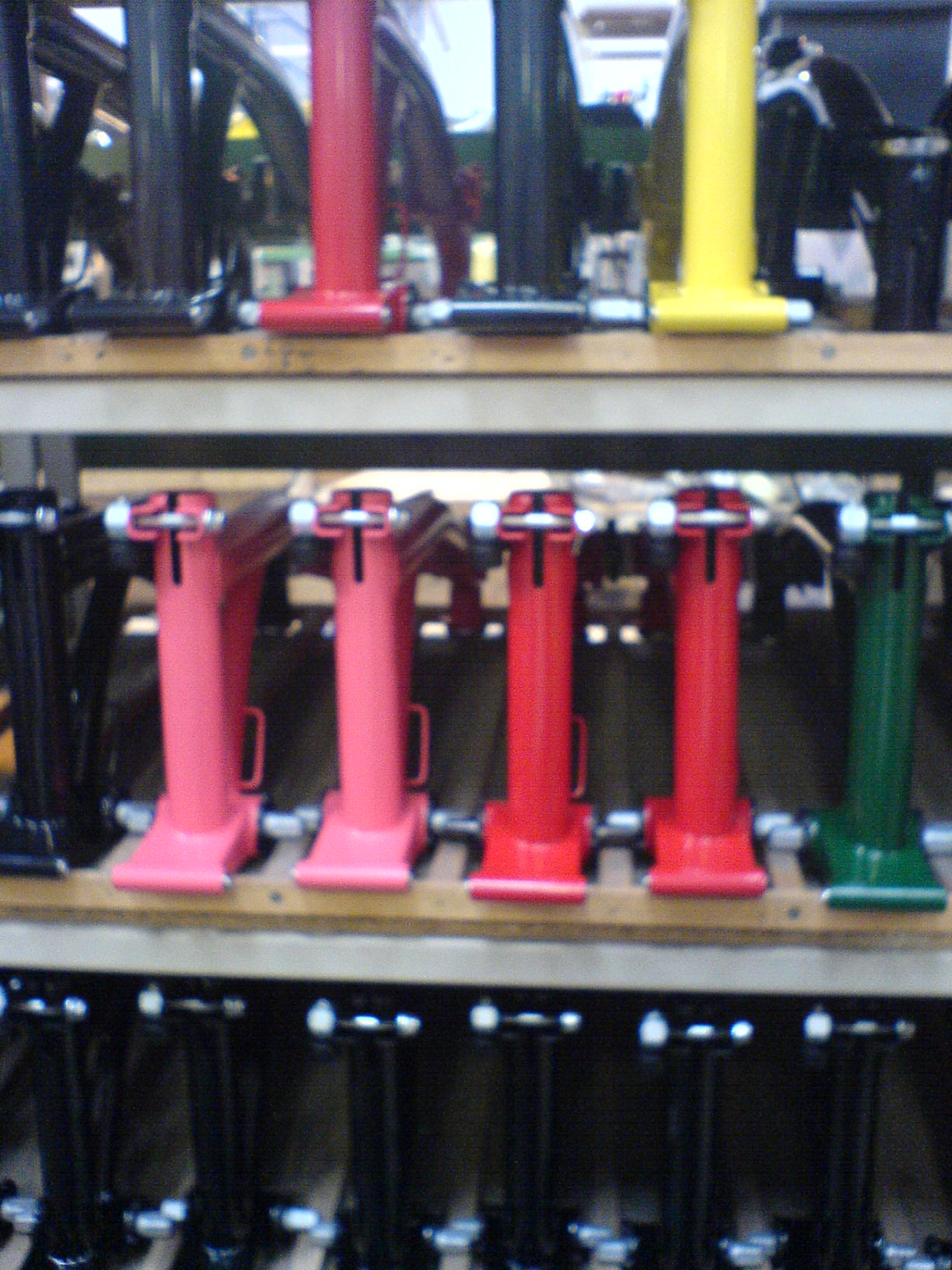 Folding Brompton Bicycle components at Brompton's factory in London. Multiple coloured main frames are shown stacked up.